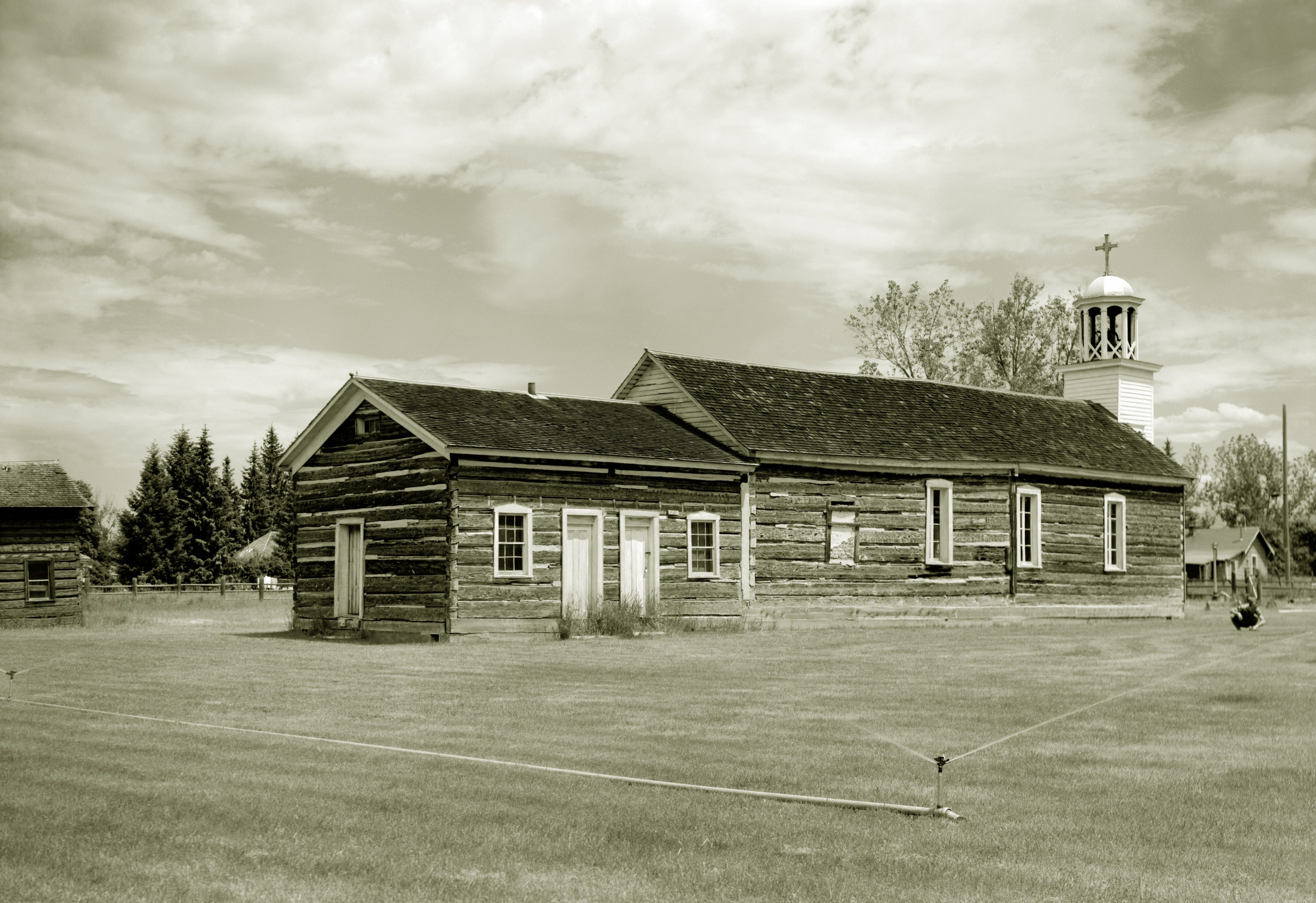 Southwestern view of St. Mary's Roman Catholic Mission, located along North Avenue in Stevensville, Ravalli County, Montana, United States. Together with the attached pharmacy, visible on the far left, the church (built in 1866) is listed on the National Register of Historic Places as St. Mary's Church and Pharmacy.